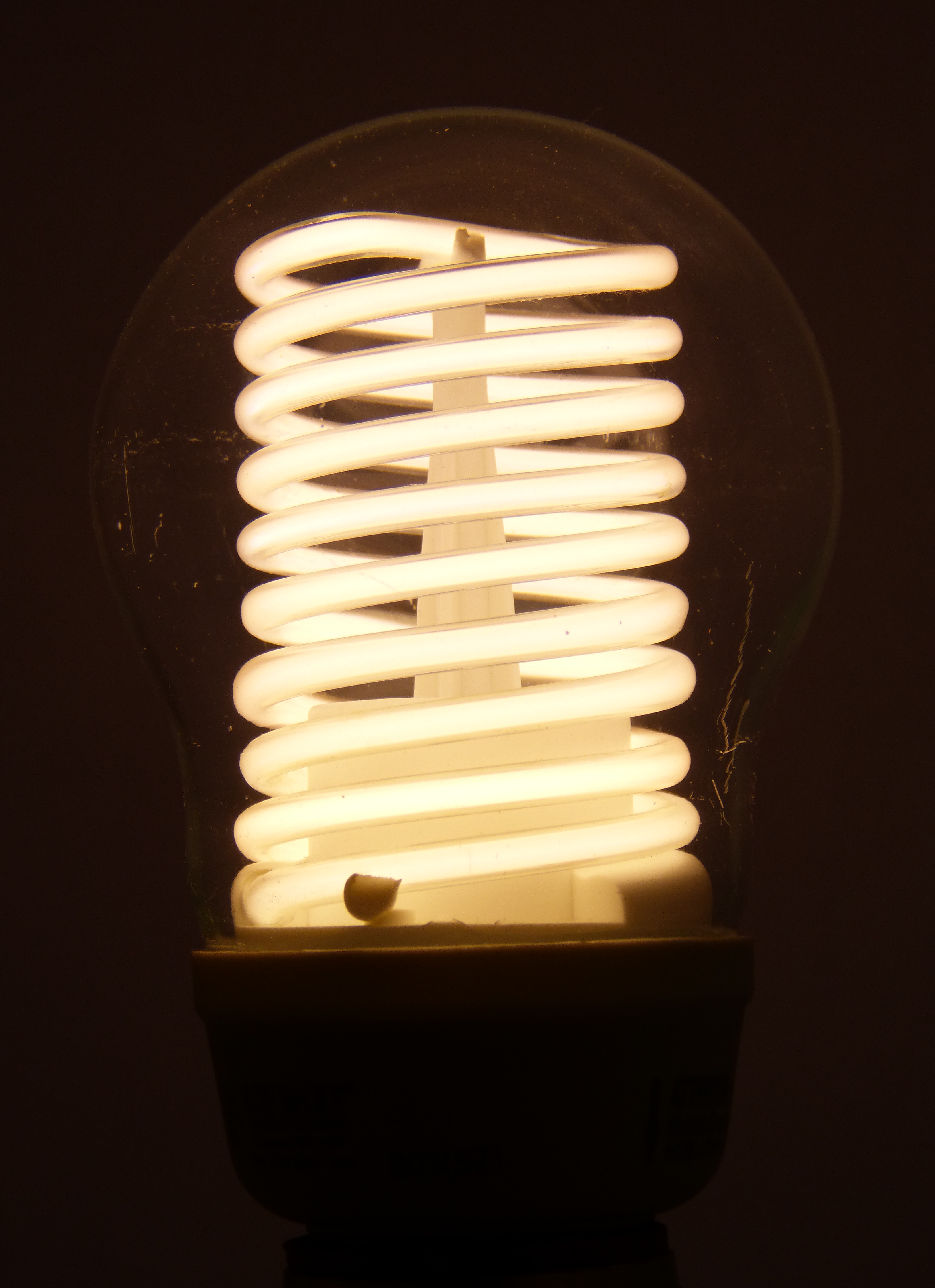 A photo of an illuminated compact fluorescent lamp (CFL) of the cold cathode variety. The spiraled tube is thinner and longer than the tube on a standard (hot cathode) CFL. This bulb is rated at 8 watts and 350 lumens.